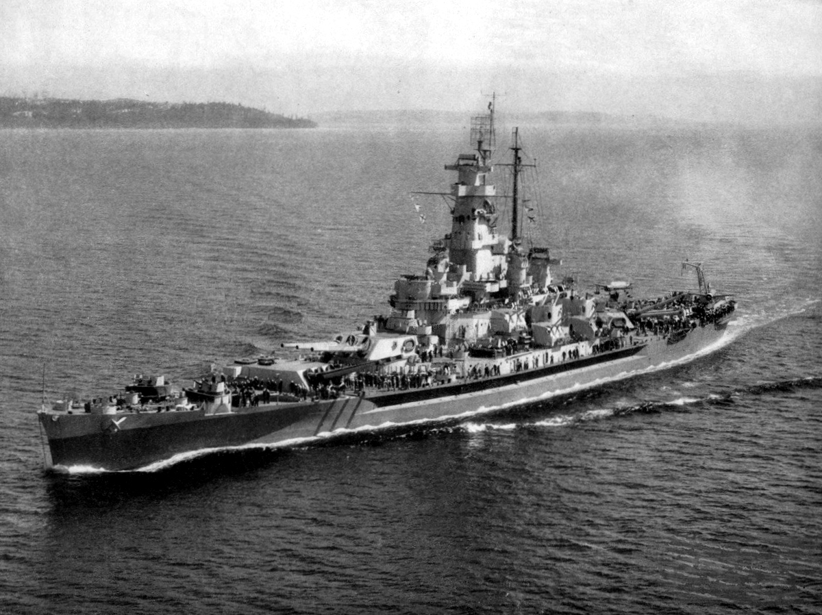 The U.S. Navy battleship USS Massachusetts (BB-59) underway, most probably after her refit at the Puget Sound Naval Shipyard, Washington (USA), circa in July 1944. She is painted in Camouflage Measure 22.